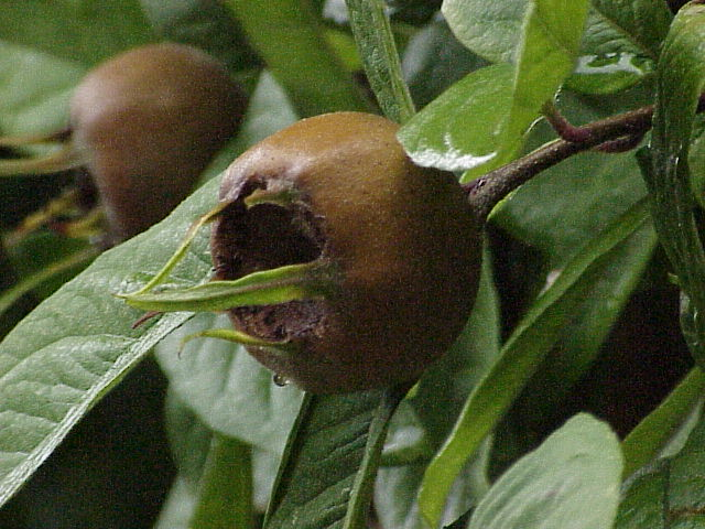 Species: Mespilus germanica Family: Rosaceae Image No. 1